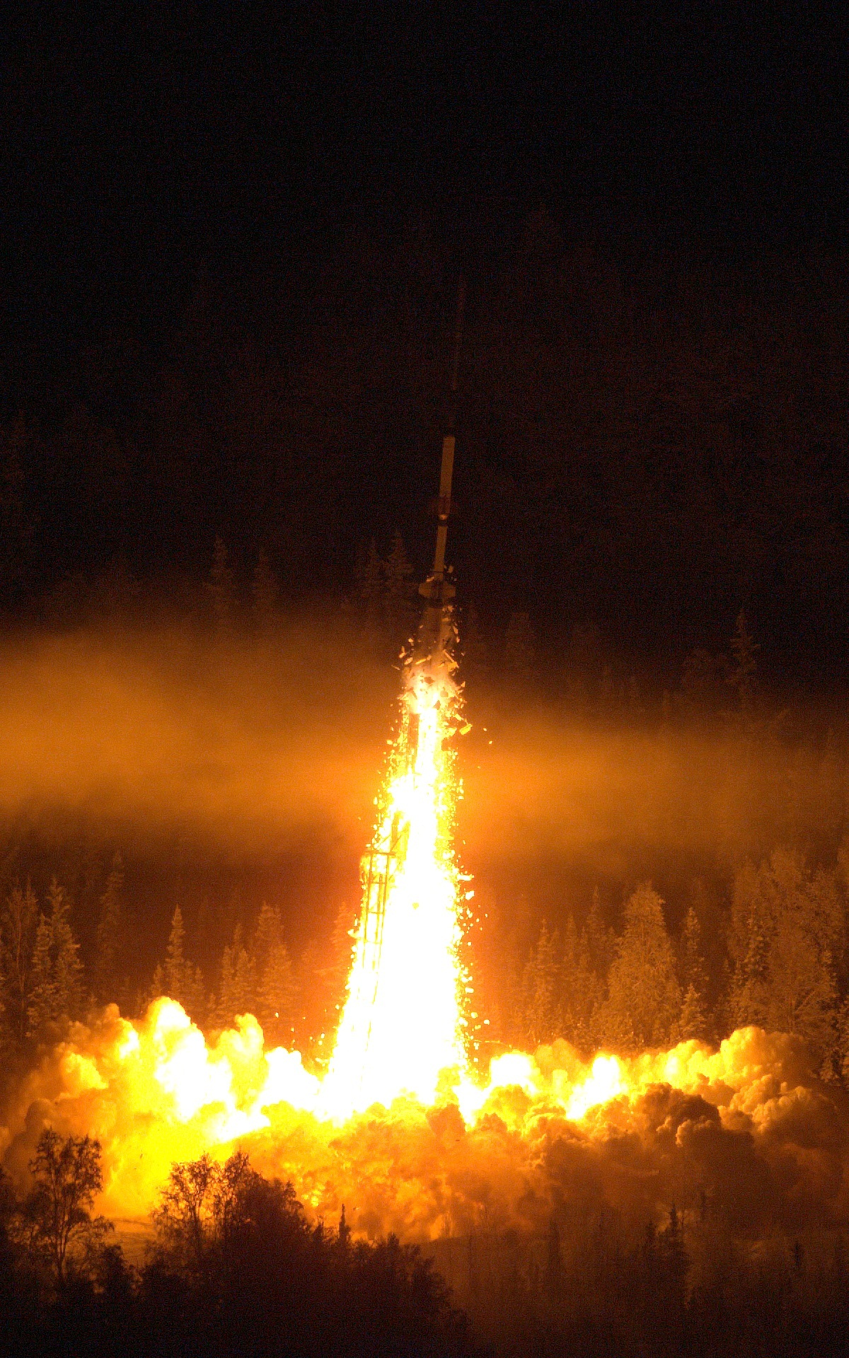 A NASA Talos Terrier Oriole Nihka (Oriole IV) sounding rocket with the Aural Spatial Structures Probe leaves the launch pad on Jan. 28, 2015, from the Poker Flat Research Range in Alaska.